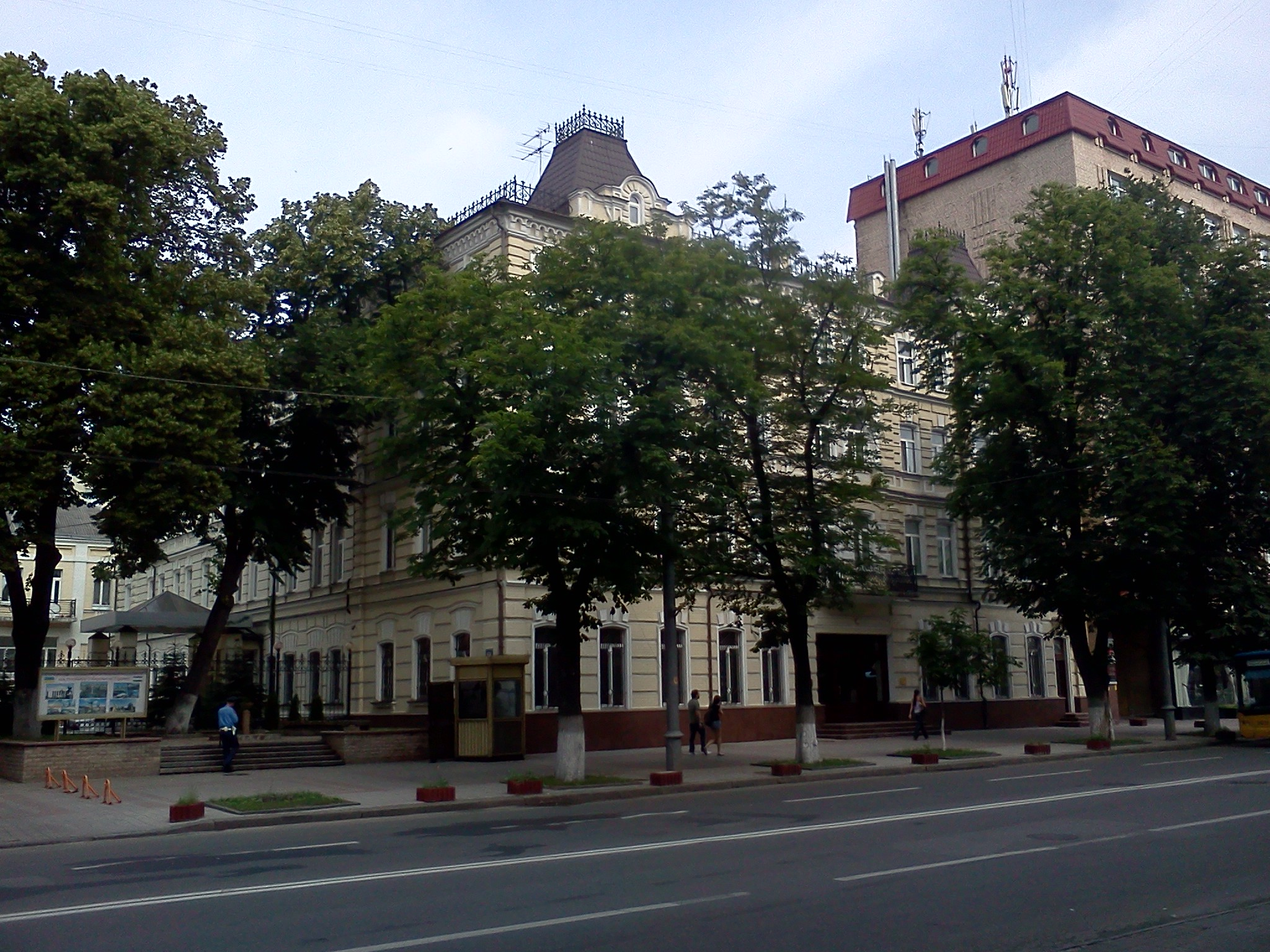 Embassy of Uzbekistan in Kyiv